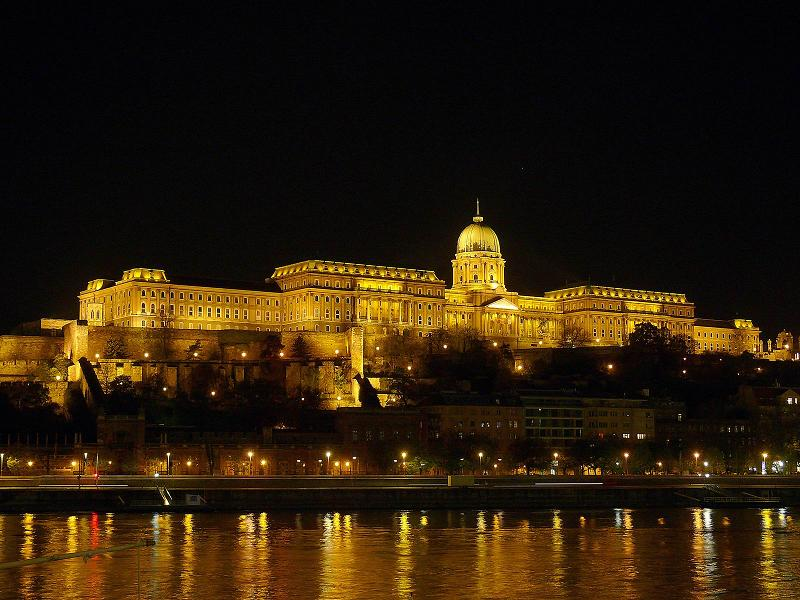 Buda Castle in Budapest